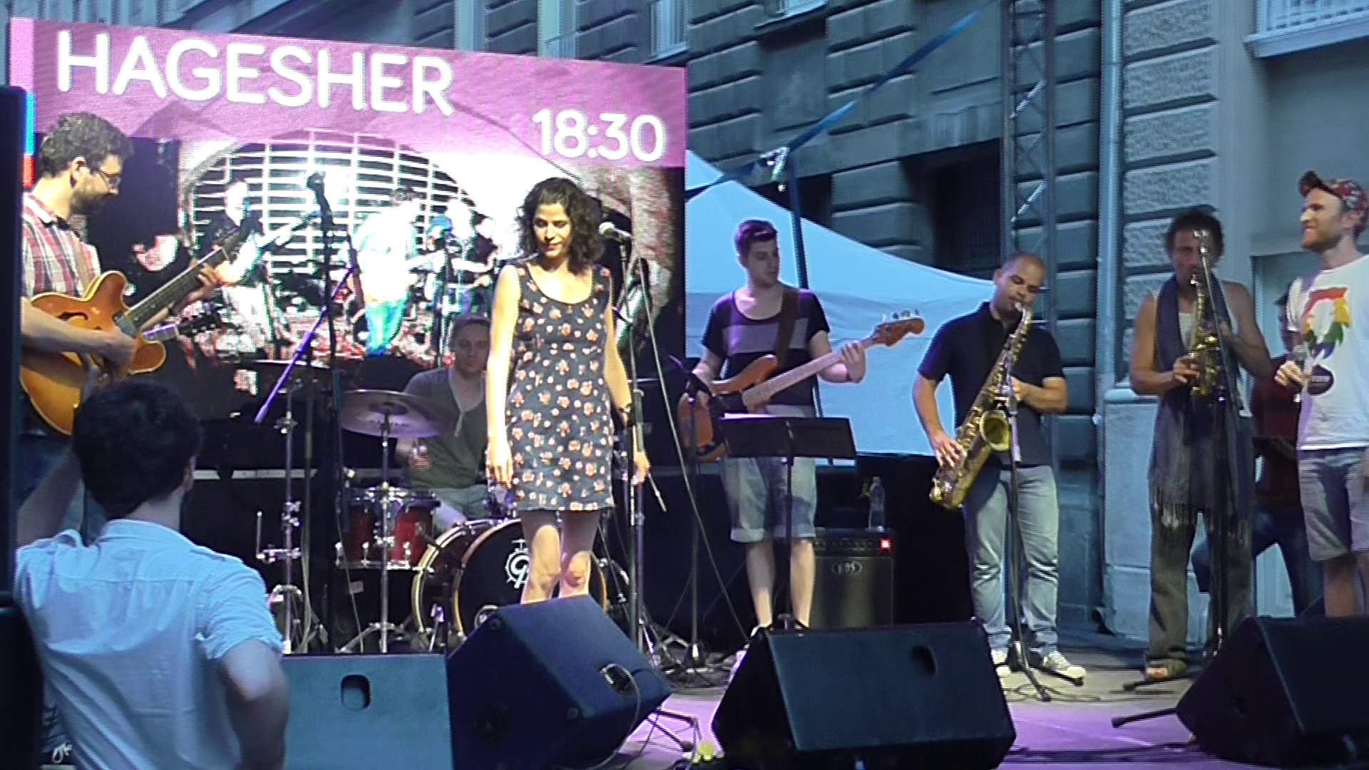 The Hagesher band in the Révay Street - Budapest, Hungary